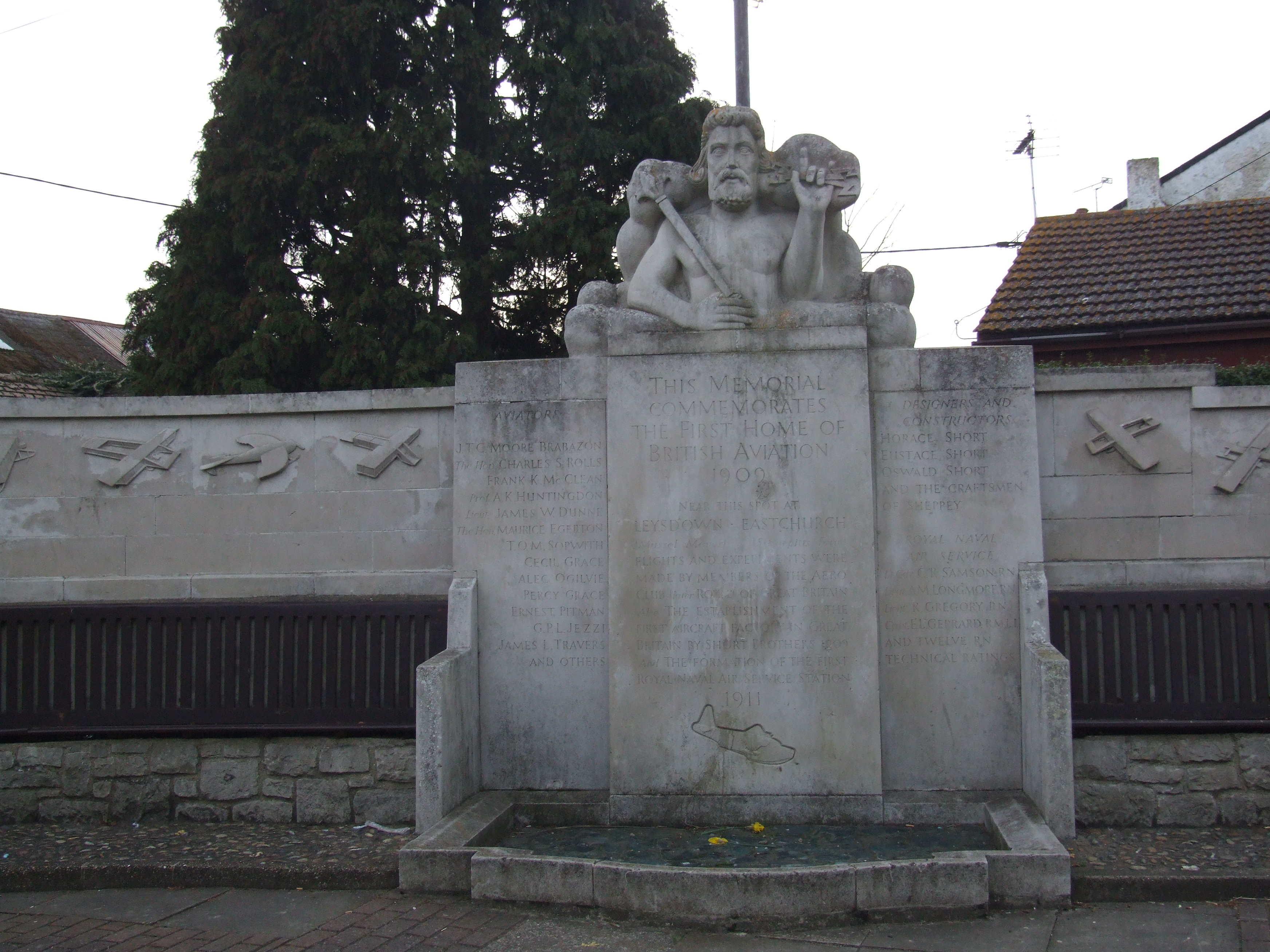 Eastchurch, Isle of Sheppey Kent. Aviation Memorial, Eastchurch was the first place in the UK, that the Wright Bros. used to fly their plane.